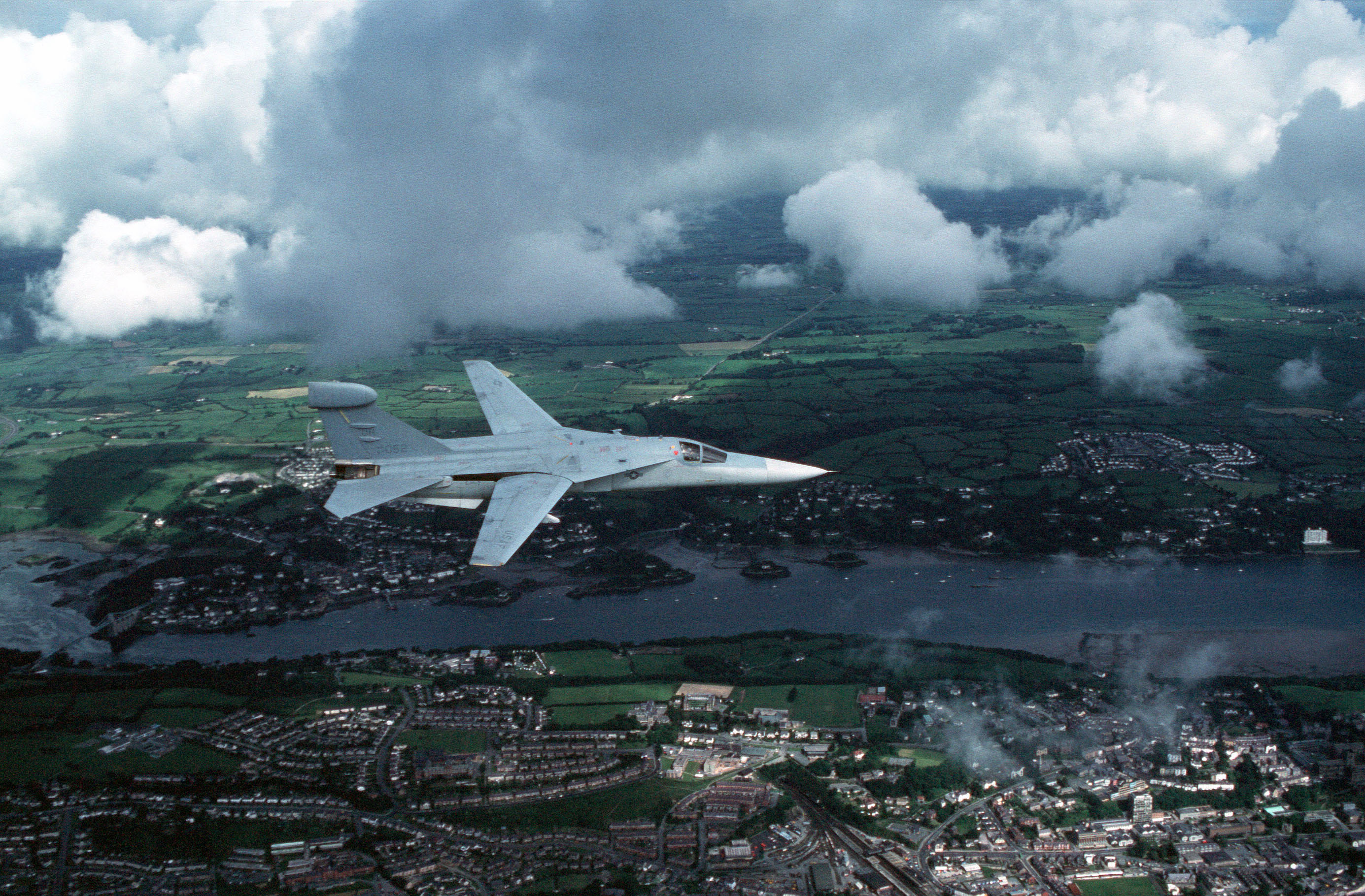 An air-to-air right side view of an EF-111A Raven aircraft from the 42nd Electronic Combat Squadron.